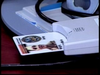 American ID Card